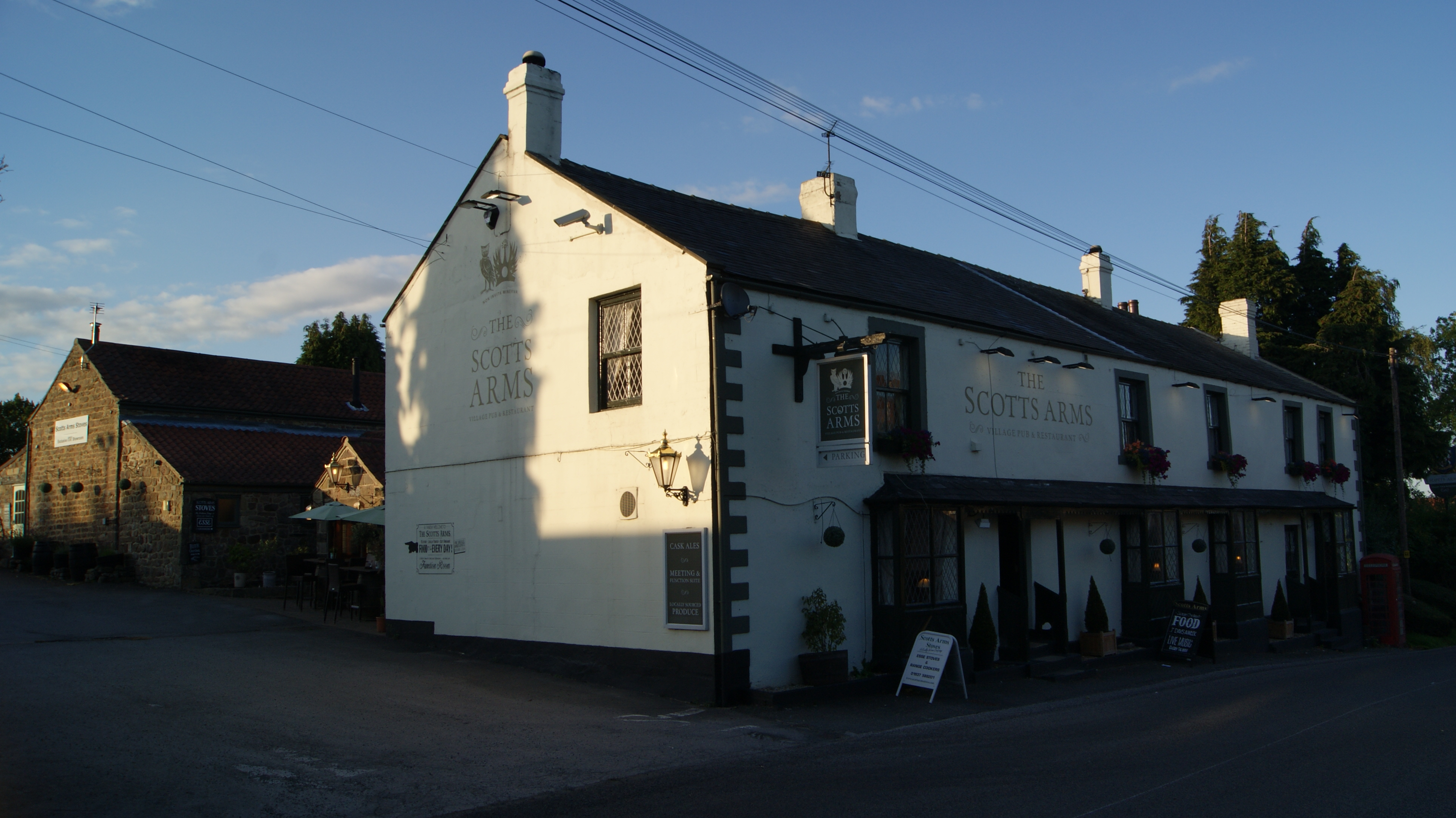 Scotts Arms, Sicklinghall, North Yorkshire. Taken on the evening of Wednesday the 9th of August 2017.